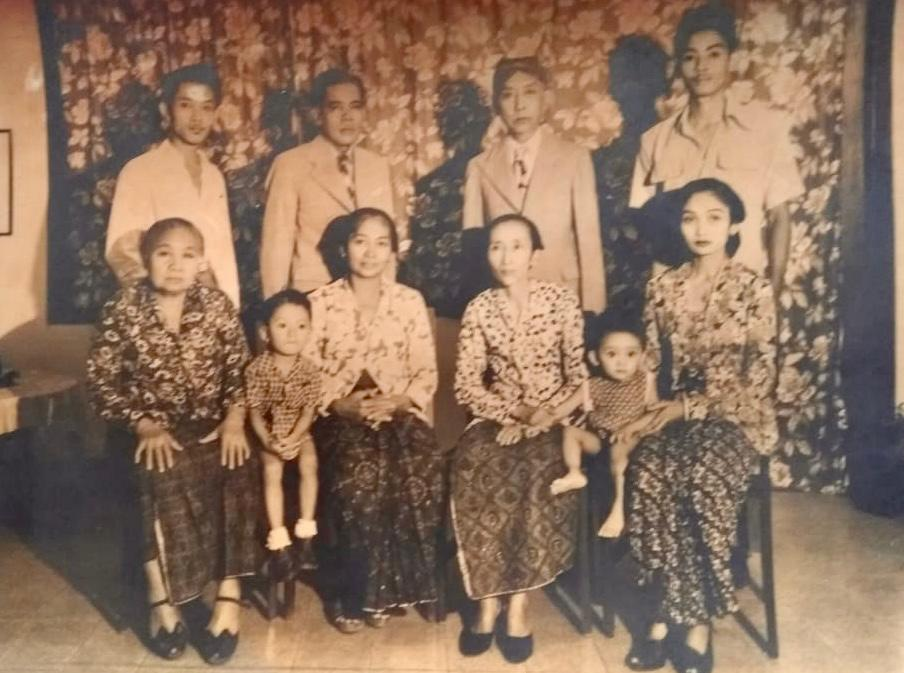 Family of Poerbatjaraka